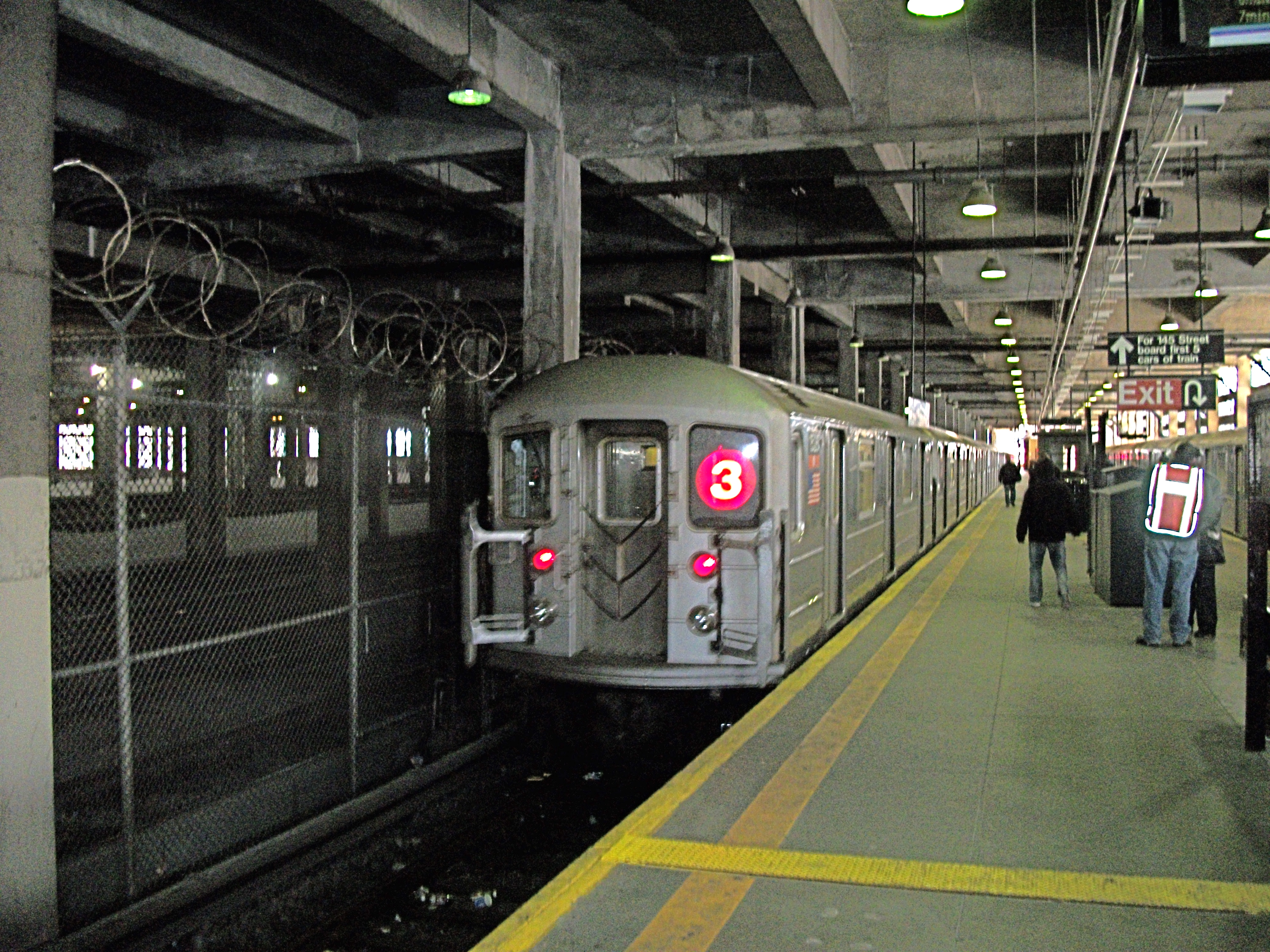 The #3 train as it leaves the Harlem - 148th Street (IRT Lenox Avenue Line) in Harlem, Manhattan, New York. This will have to serve as yet another substitute for the outdoor street scene I failed to get.